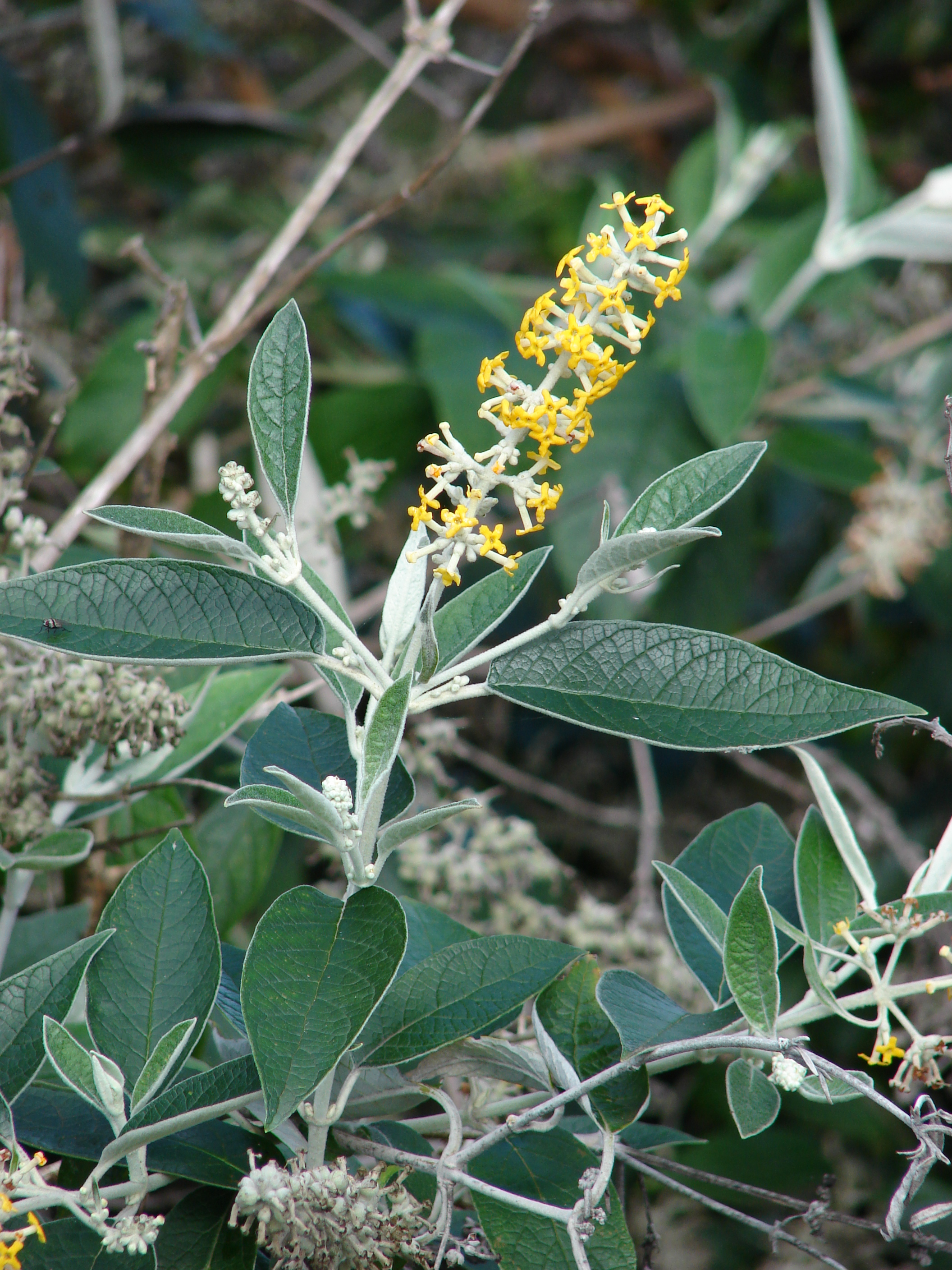 Buddleja madagascariensis (leaves and flowers). Location: Maui, Kula